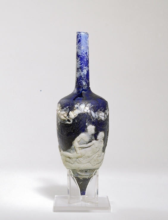 Perfume bottle made of cameo glass found in the Roman necropolis of Ostippo (Spain). Side B of the bottle, portrayed above, shows two young men in bed. Side A, not portrayed, shows a man and a woman. The bottle was likely produced at Rome in the 1st century BC or AD.